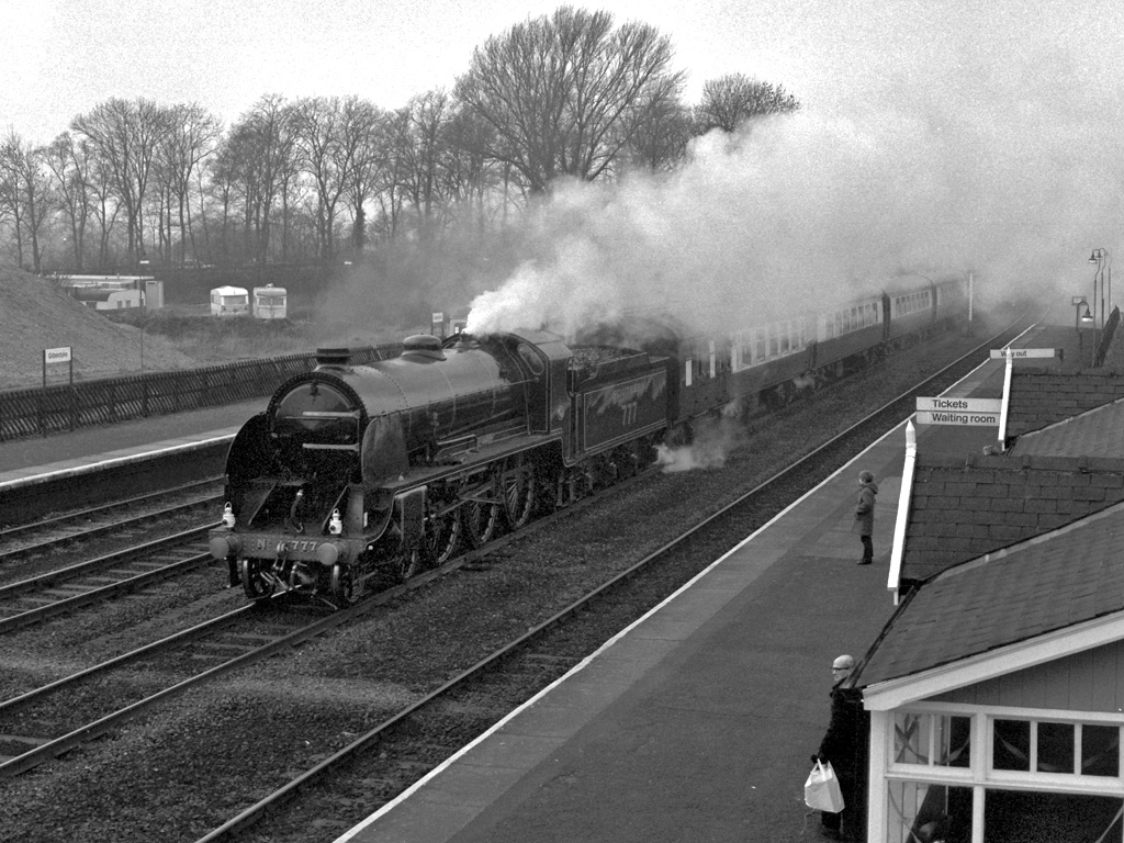 Gilberdyke, East Riding of Yorkshire, England. Southern Railway Maunsell 4-6-0 N-15 "King Arthur" class locomotive number 777 SIR LAMIEL passes through Gilberdyke station on the Down Fast line with a charter train. Wednesday 29th December 1982